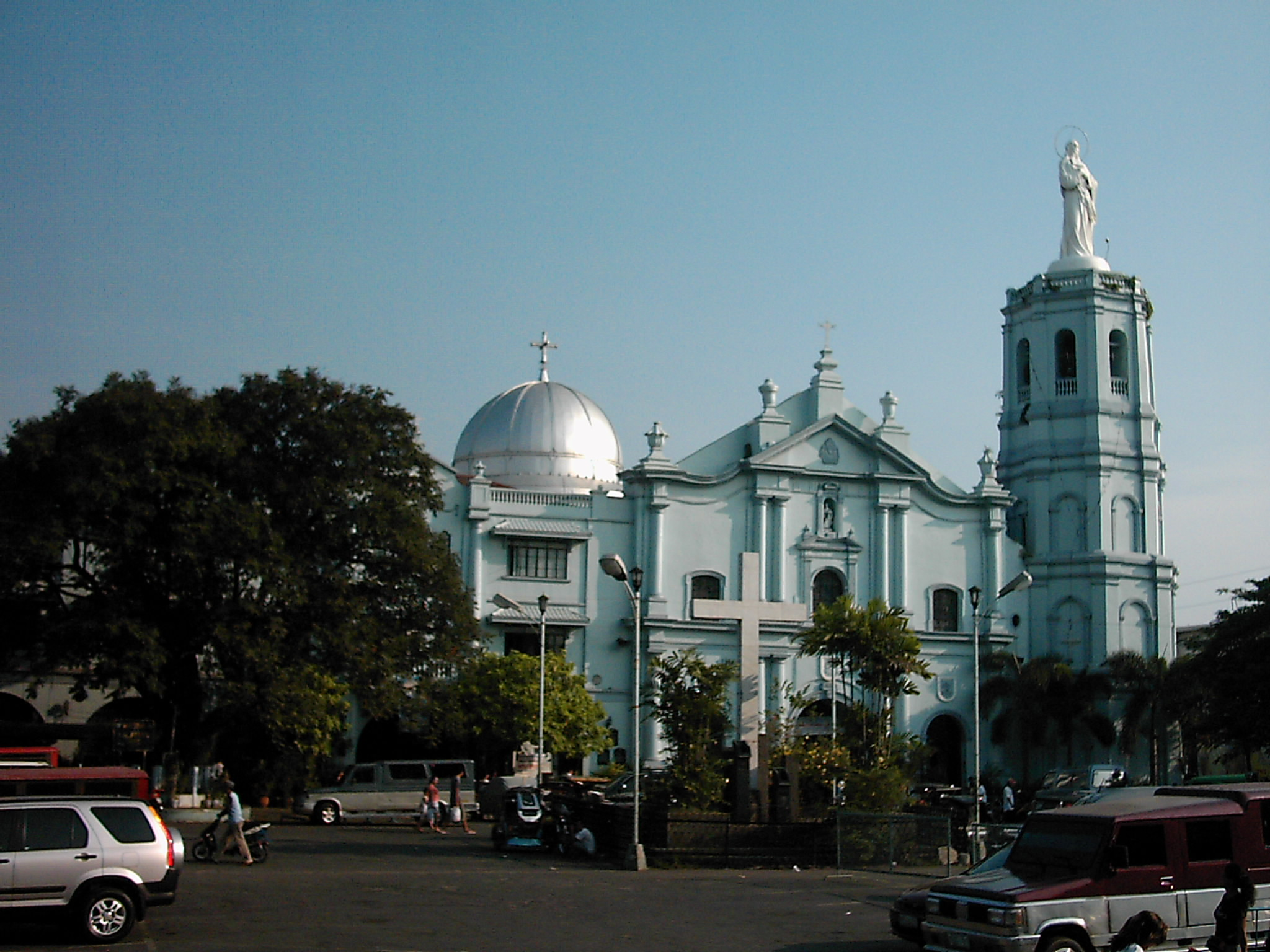 Malolos Cathedral, also known as the Basilica Minore dela Immaculada Concepcion.